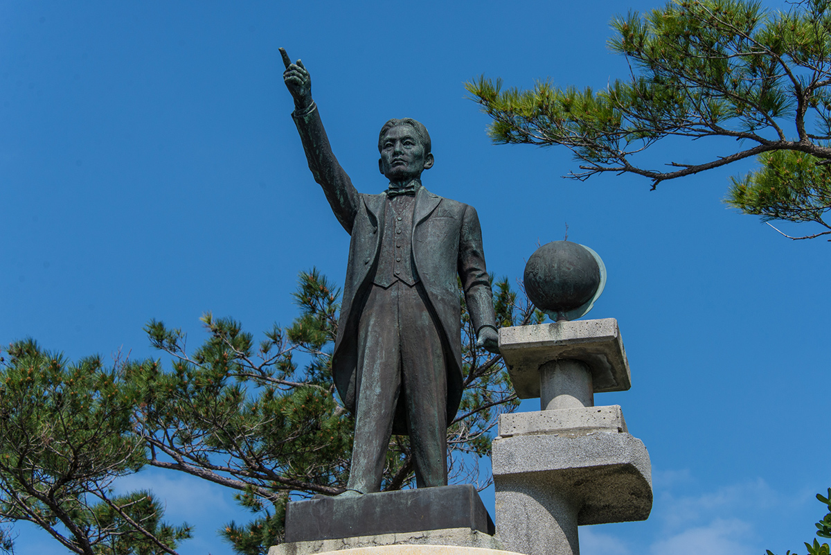 This is the statue of Kyuzo Toyama, the father of Okinawan emigration.